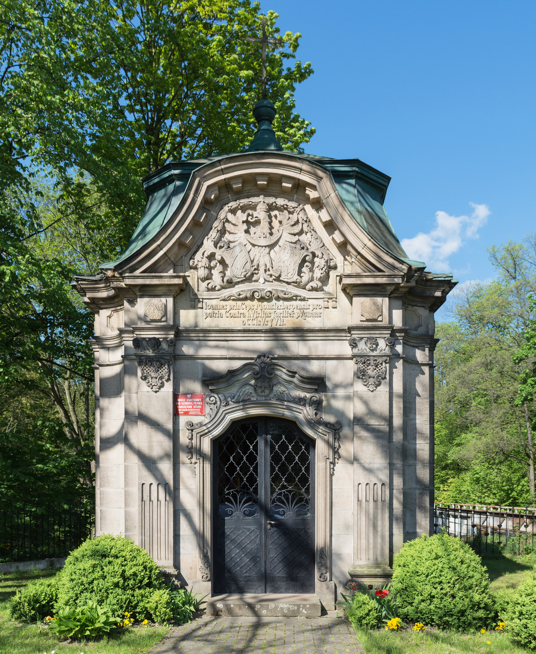 Jan Ziębicki mausoleum in Stary Wielisław